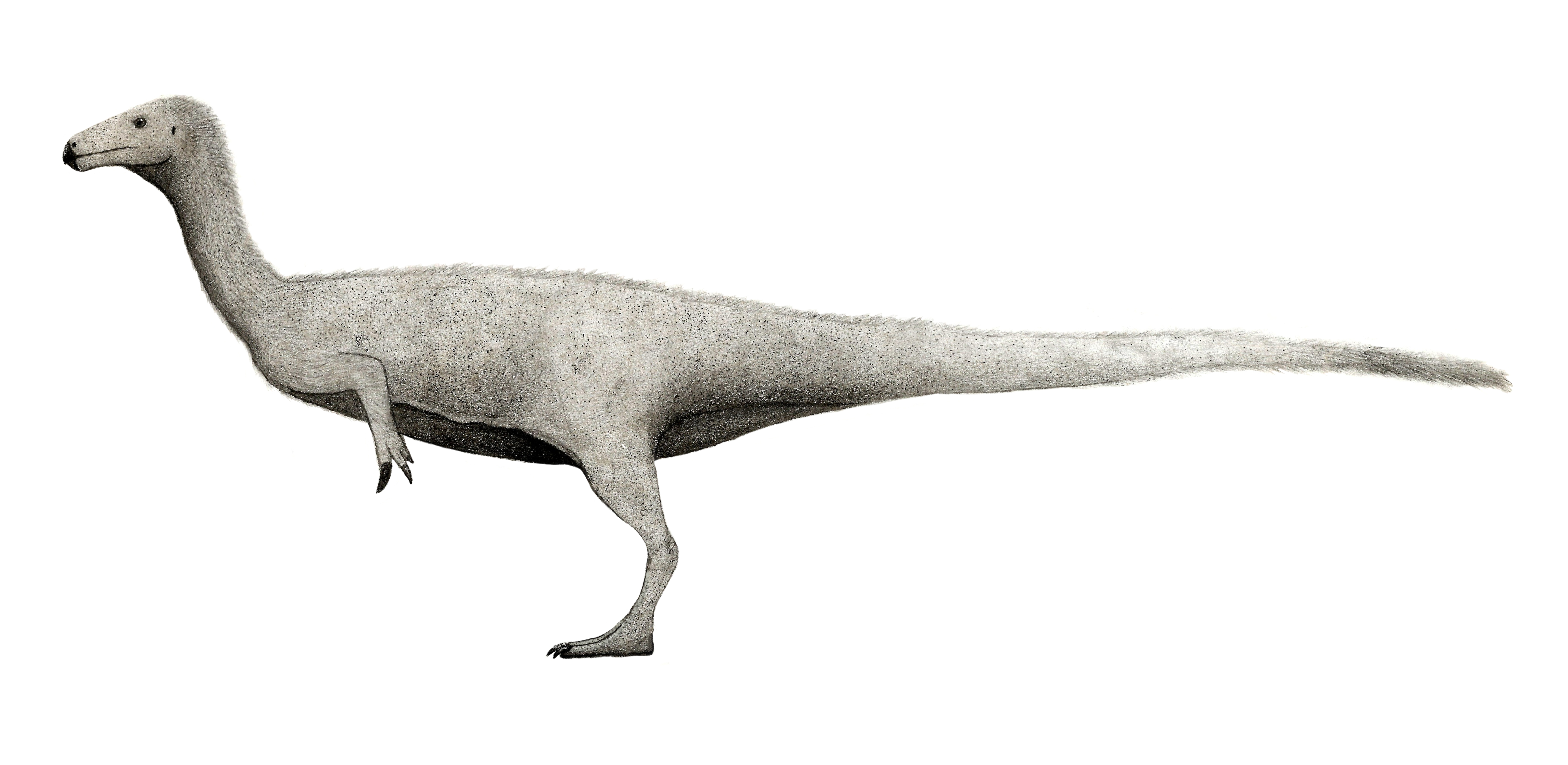 Restauration of Chilesaurus